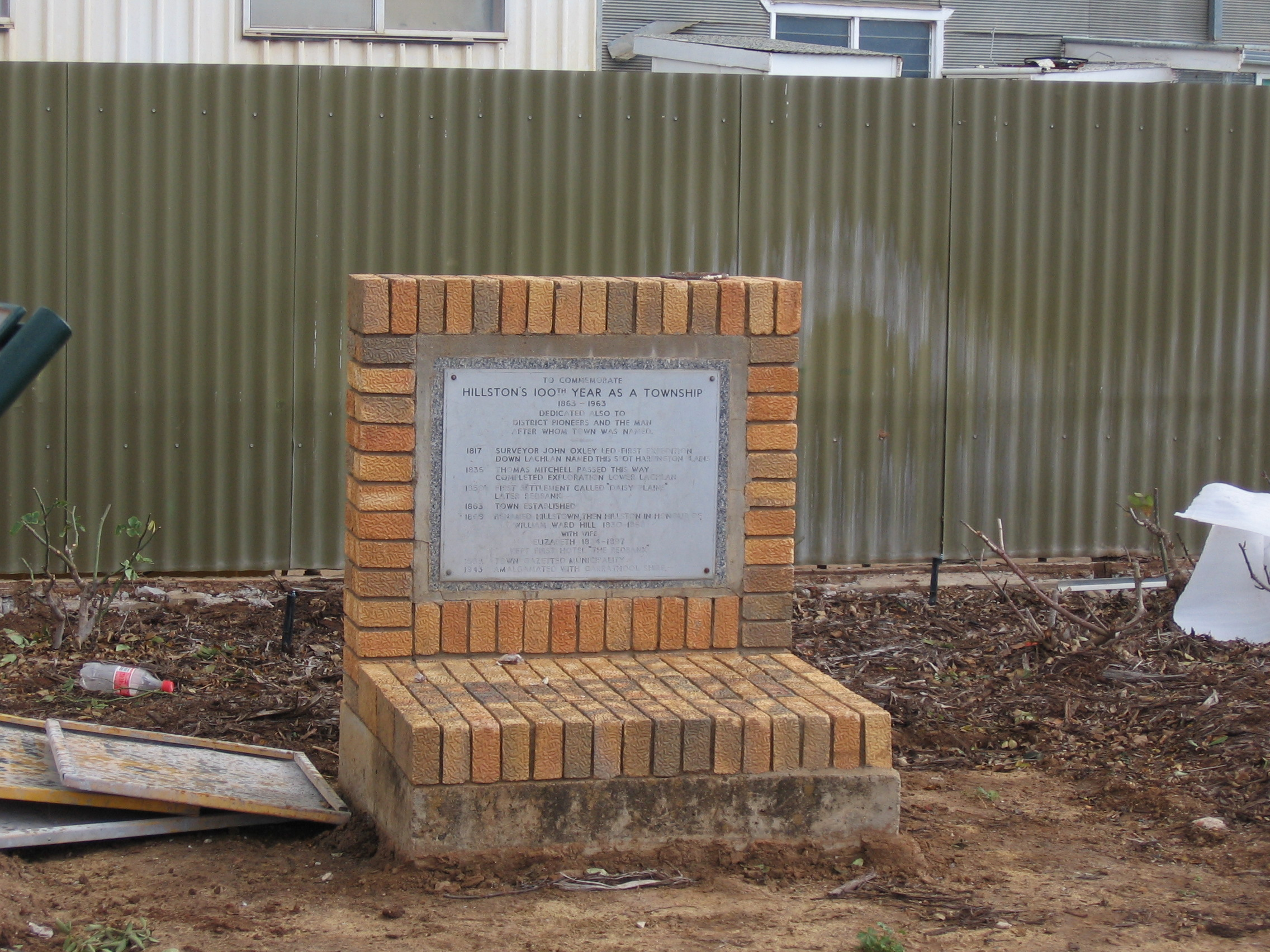 Memorial of Hillston's centenary as a township, 1863-1963